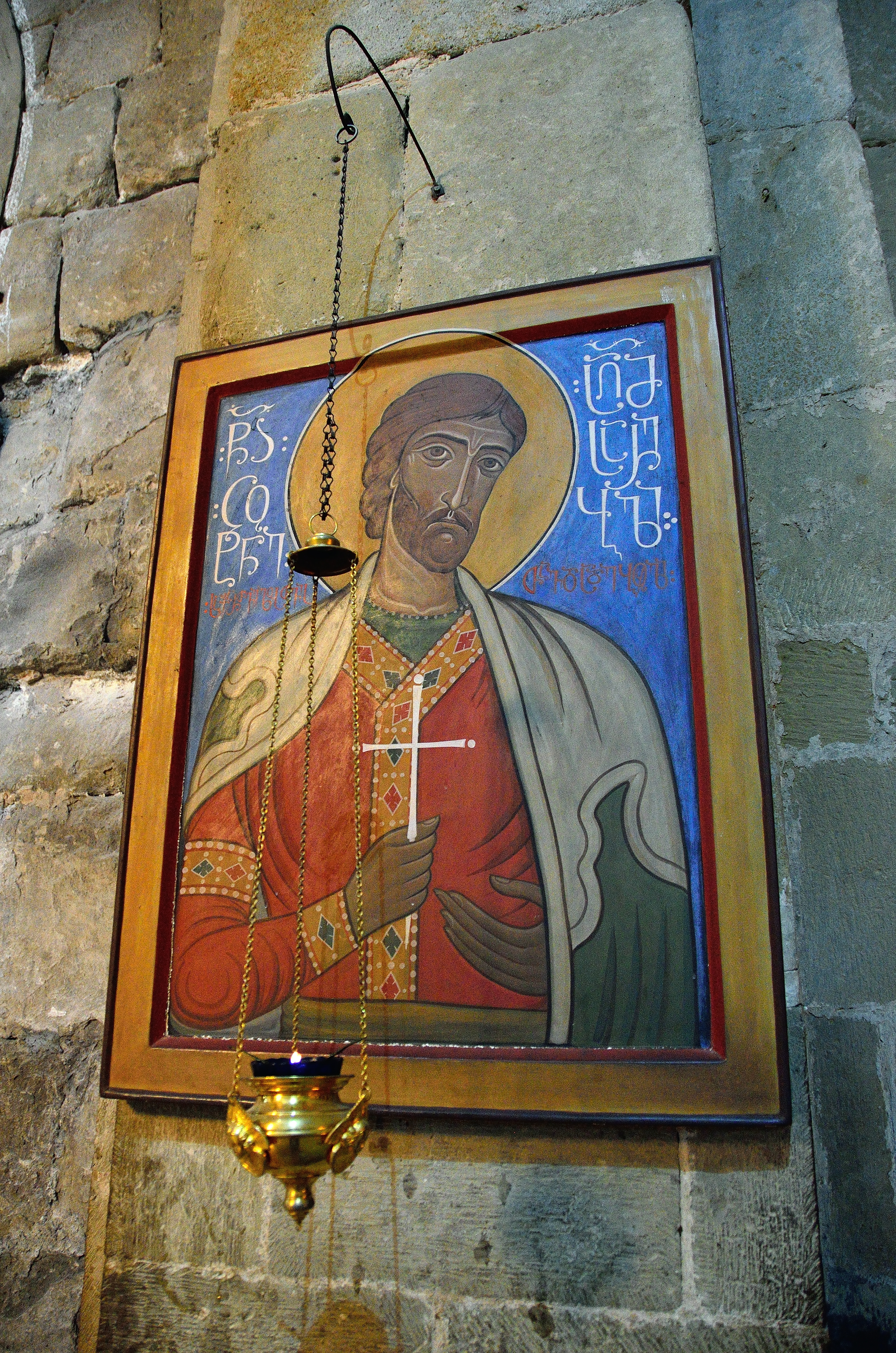 Mtskheta Georgia July 2014